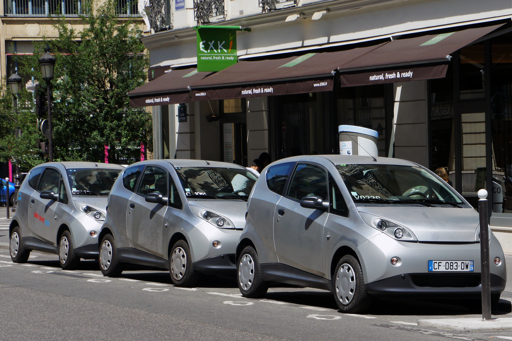 Bolloré Bluecars recharging at an Autolib' station on Rue du Quatre-Septembre in Paris.